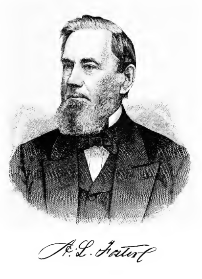 A drawing of Asa Lansford Foster, a 19th-century industrialist and geologist in Pennsylvania